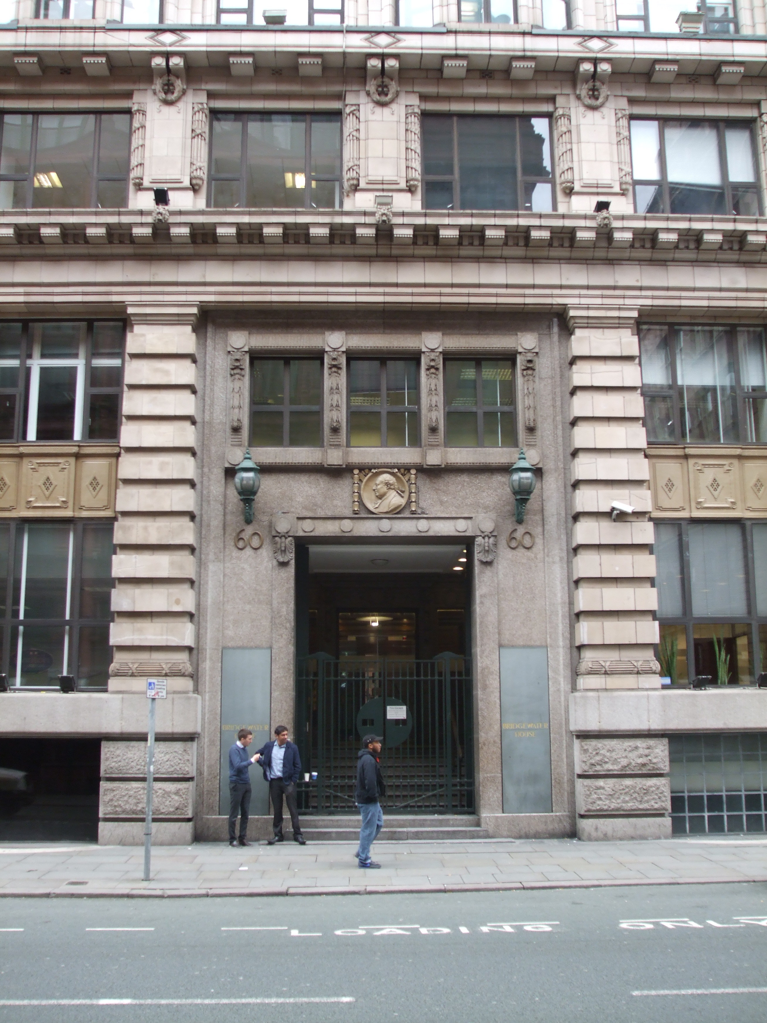 Whitworth Street is a street in Manchester, England. It runs between London Road andOxford Street. West of Oxford Street it becomes Whitworth Street West which then goes as far as Deansgate. It was opened in 1899 and is lined with many large and grand warehouses. Bridgewater House